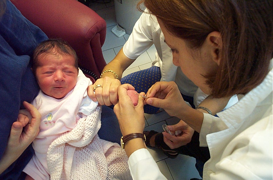 Newborn Blood Sampling